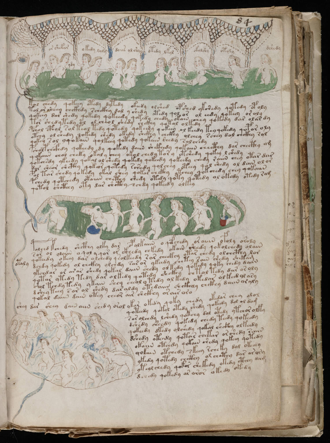 A page from the mysterious Voynich manuscript, which is undeciphered to this day.